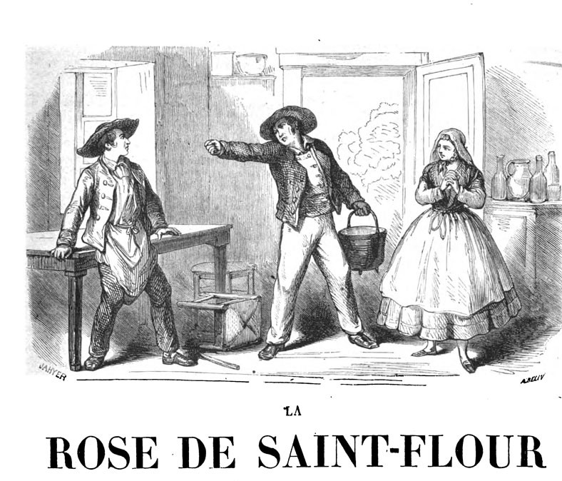 La Rose de Saint-Flour, engraving by A. Beliv, from title page of printed libretto to "La Rose de Saint-Flour", operetta by Jacques Offenbach and Michel Carré. Charles Petit as Chapailloux, Étienne Pradeau as Marcachu, Hortense Schneider as Pierrette. 1856